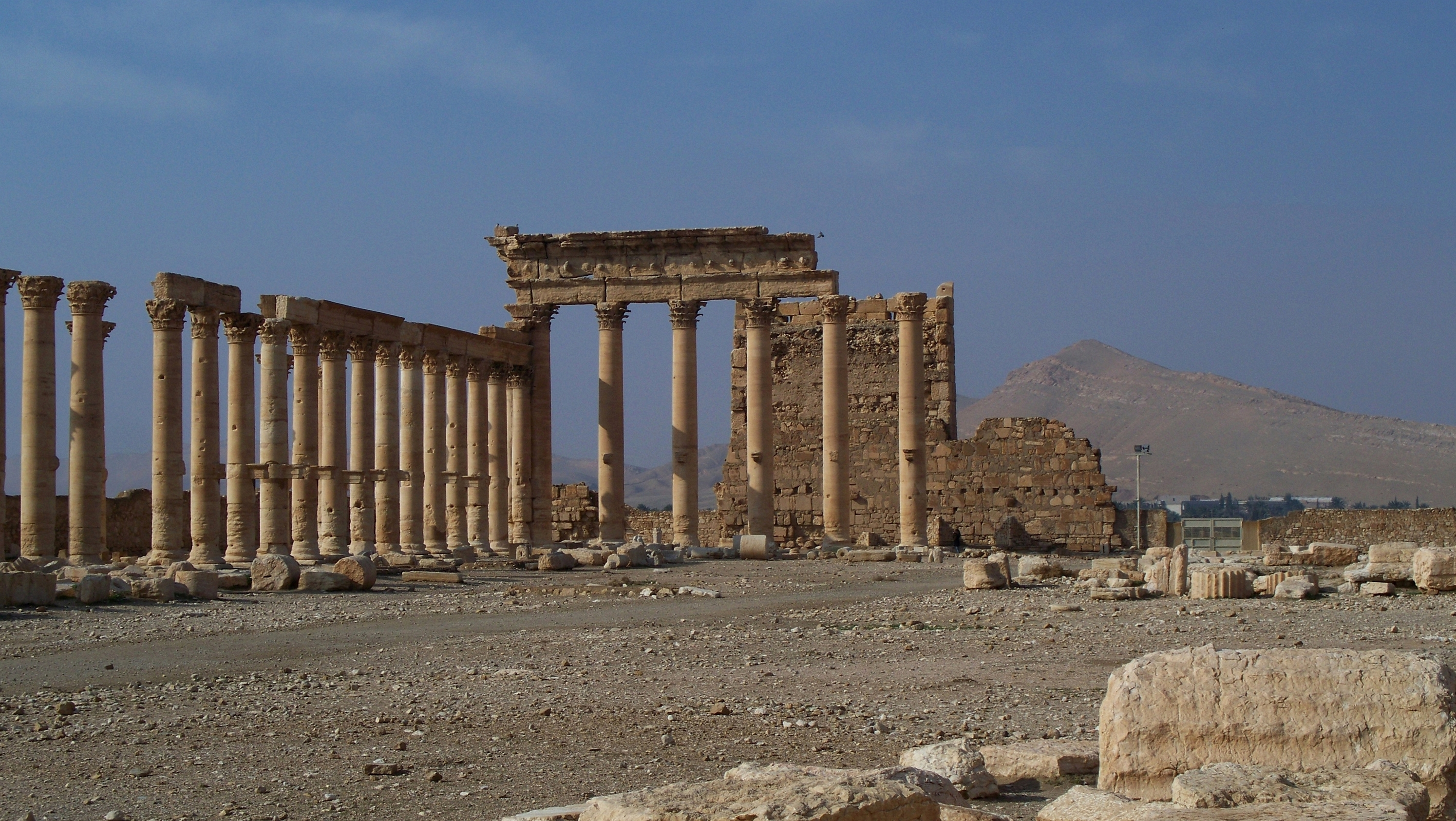 The Ancient Roman town Palmyra in Syria.